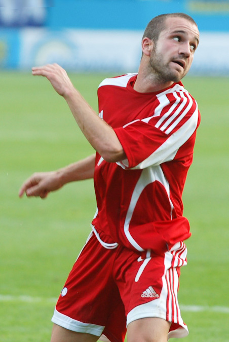 Marc Pujol, Andorran footballer, during the game Ukraine vs Andorra